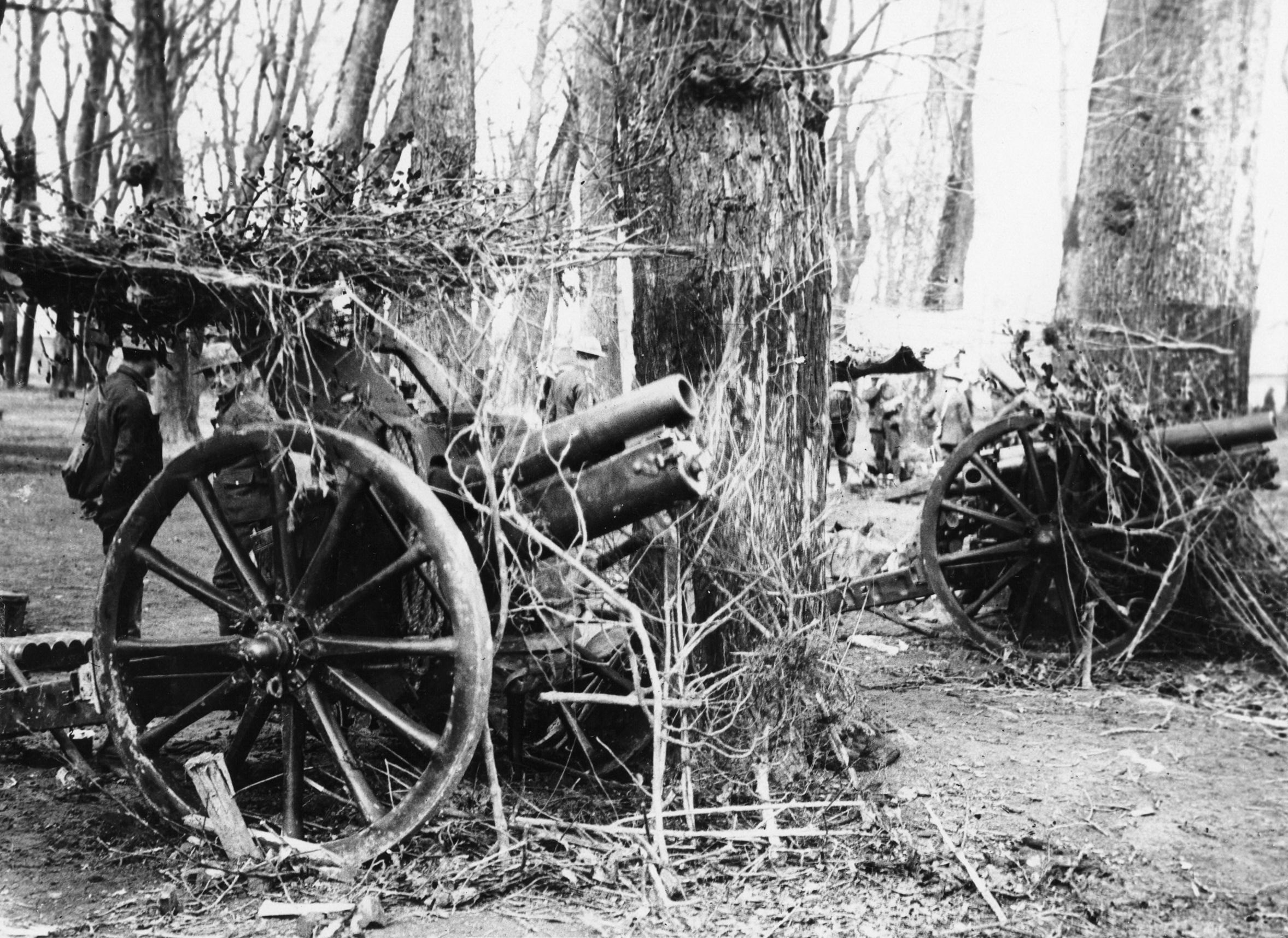 Photograph of 2 camouflaged British 4.5 inch field howitzers on the Western Front, World War I.